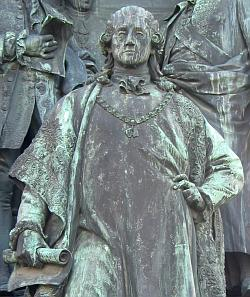 Photograph of a statue of Graf Kaunitz. This statue is part of the monument of Maria Theresia, which stands in Vienna in the park between the Kunsthistorisches Museum ("Art History Museum") and the Naturhistorisches Museum ("Natural History Museum"). The picture was shot on March 20, 2003. presumed